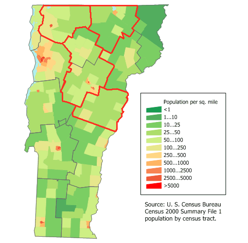 Vermont Pop Map